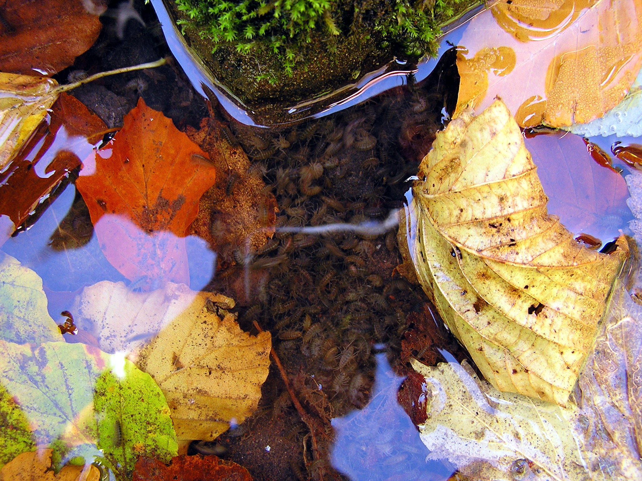 Gammarus pulex in a small stream in the Vogelsberg